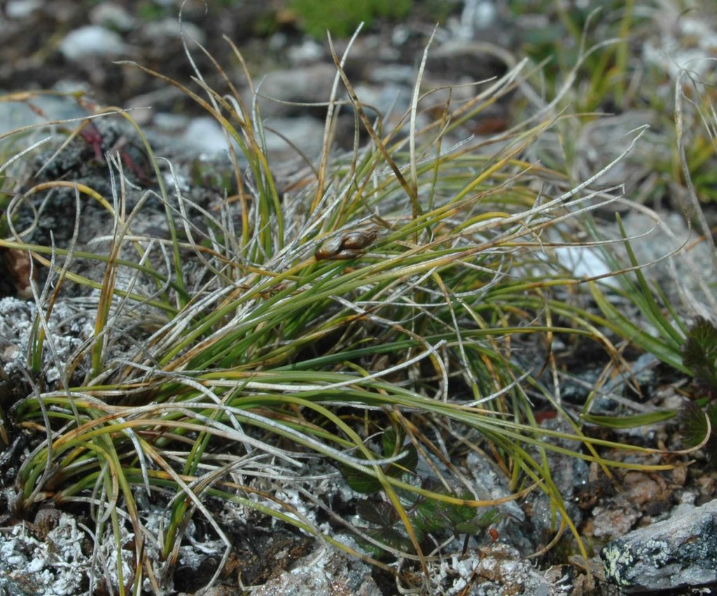 Carex nardina ssp. nardina in fruit from Padjelanta National Park, Sweden.